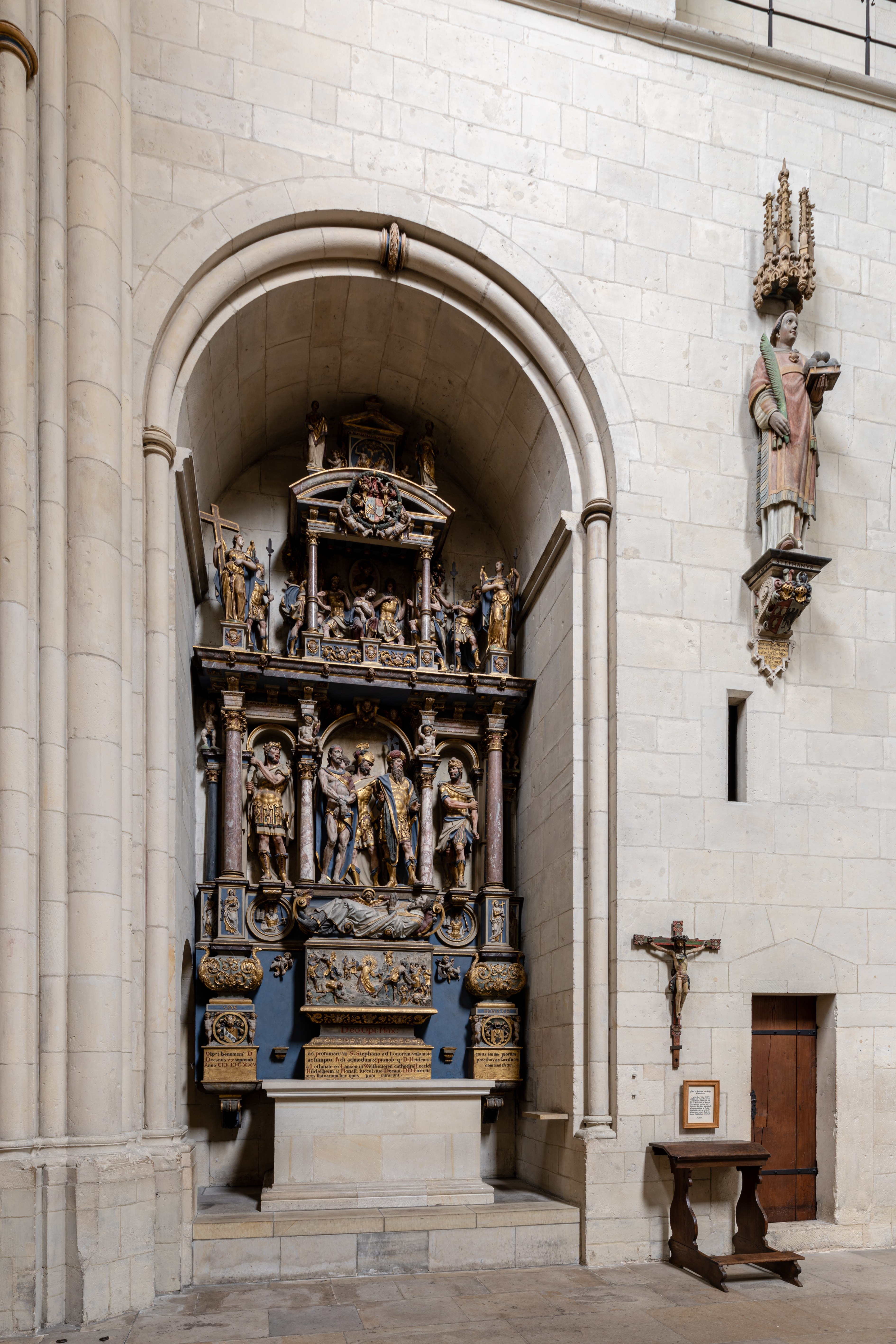 Stephen choir in St Paul's Cathedral in Münster, North Rhine-Westphalia, Germany Sculpture TitleStephanus-AltarArtistGerhard GröningerDate1619